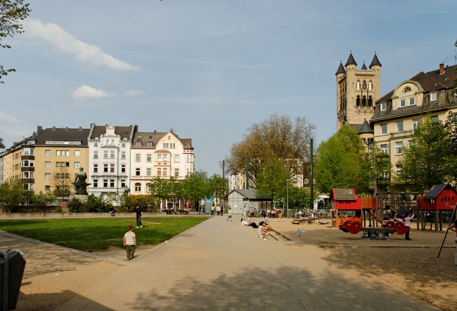 Fürstenplatz in Düsseldorf-Friedrichstadt, Germany